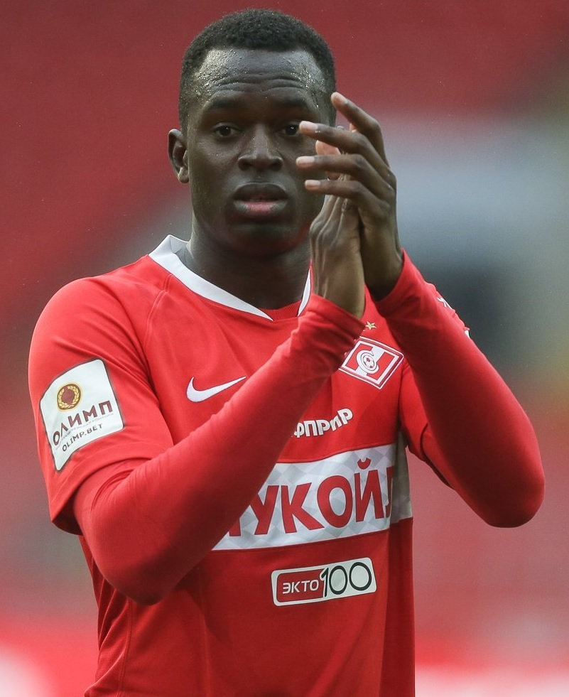 Thierno Thioub with FC Spartak-2 Moscow in a game against FC Torpedo Moscow.